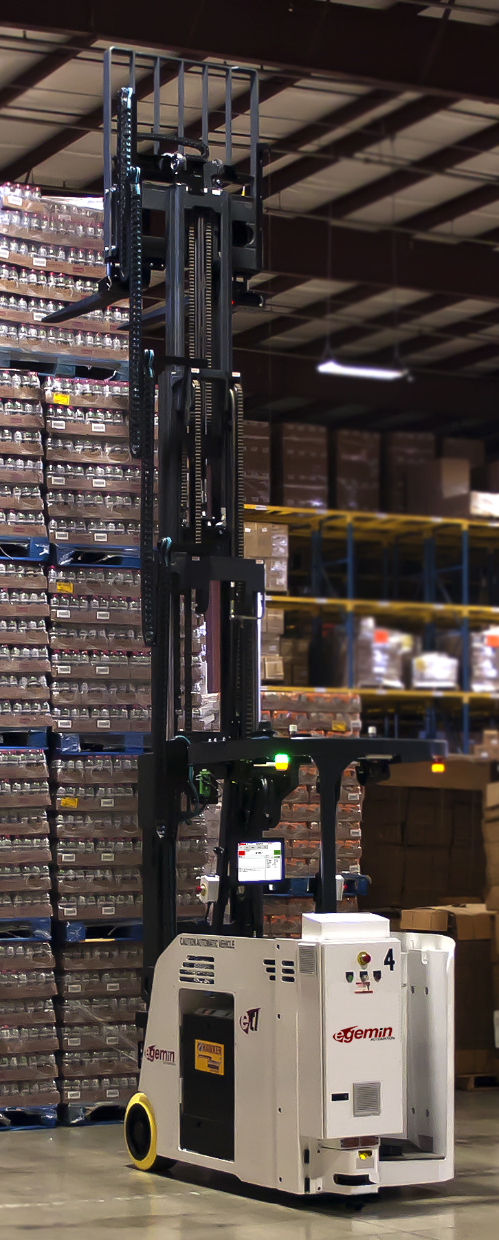 Hybrid AGV picking a load, courtesy of Egemin Automation Inc.